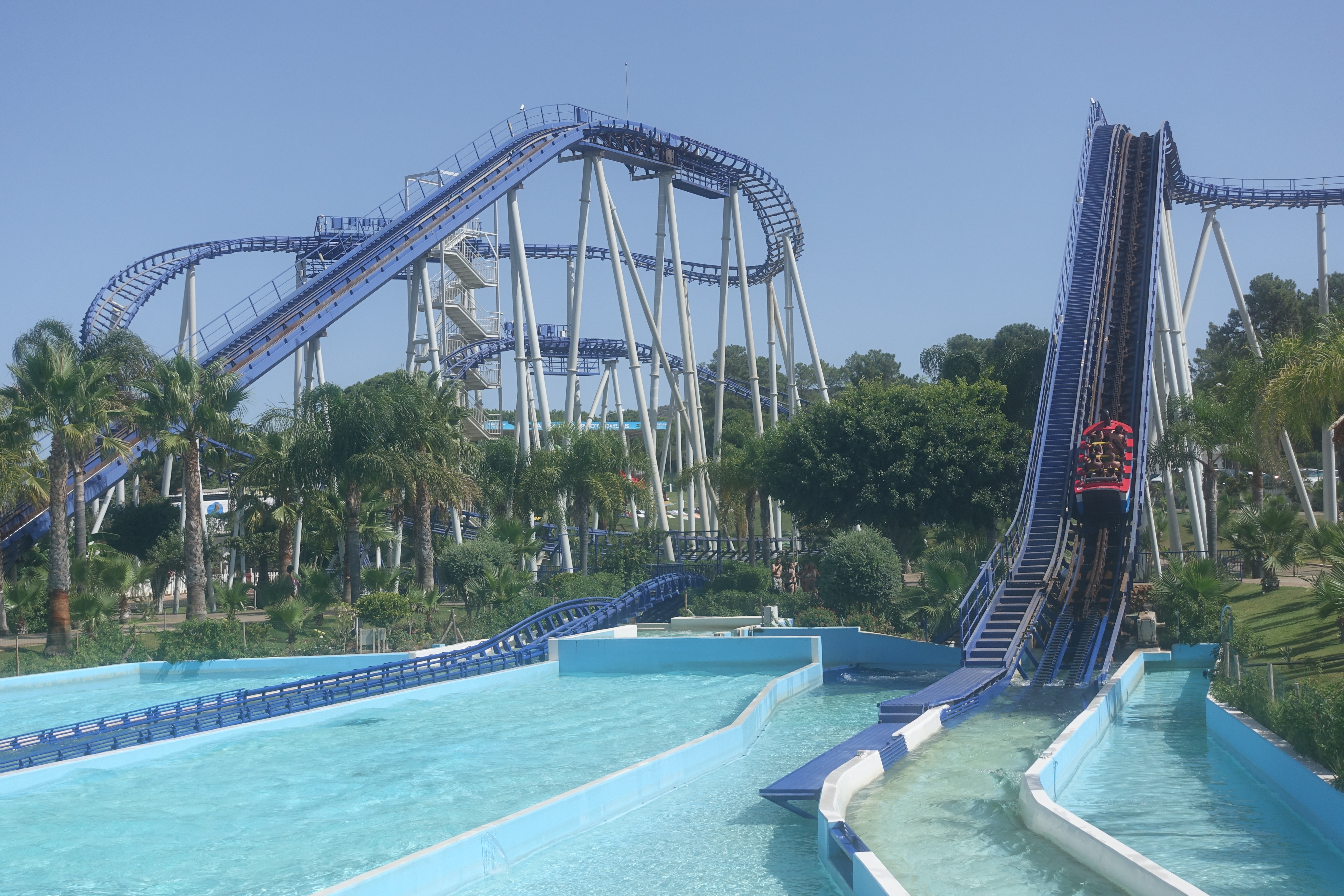 Aquashow, Loulé, Algarve.